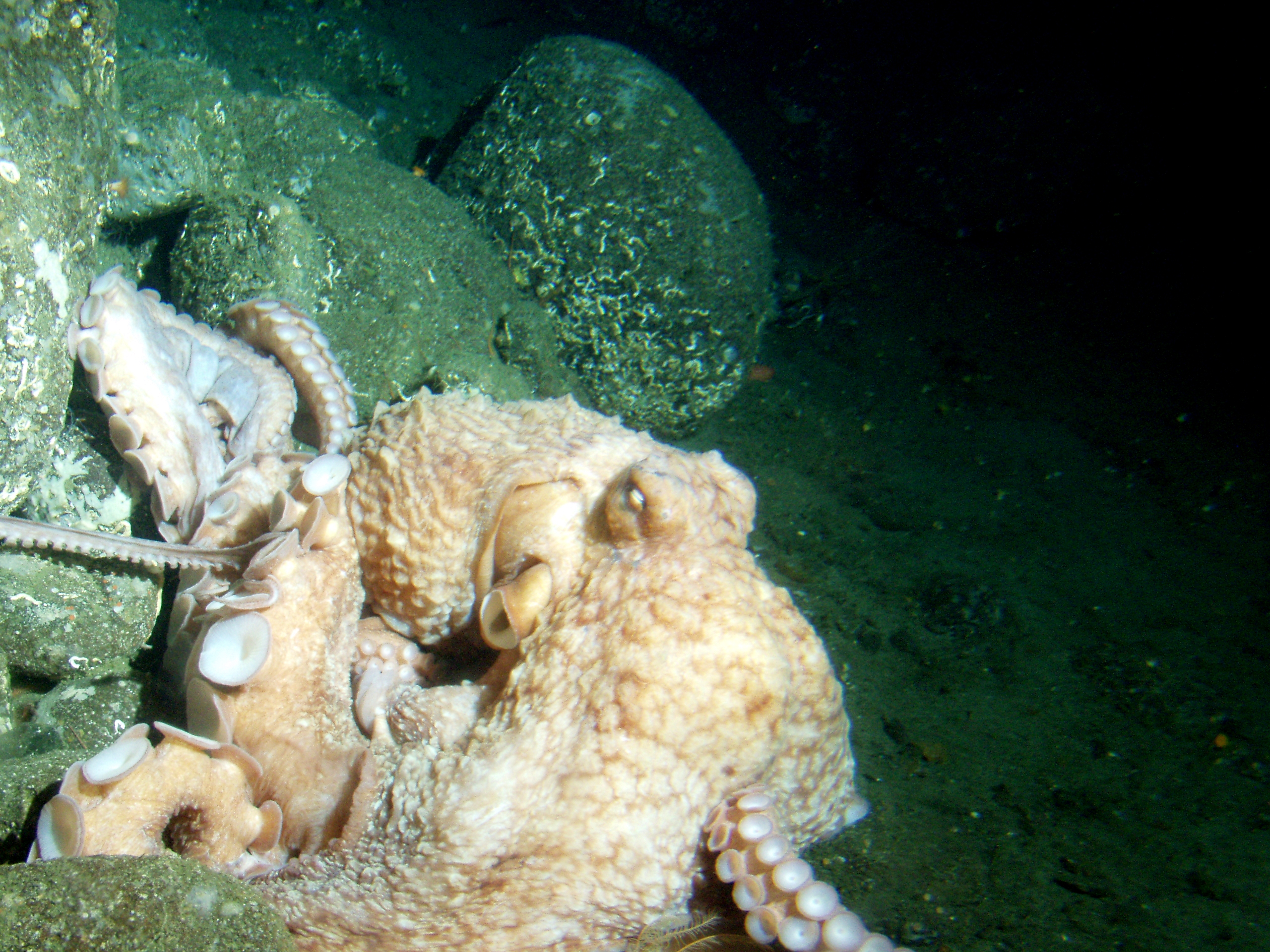 Giant pacific octopus Enteroctopus dofleini (Wülker, 1910) (synonym: Octopus dofleini) on boulder habitat at 115 meters depth. Latitude 38 02 N., Longitude 123 29 W. California, Cordell Bank National Marine Sanctuary.